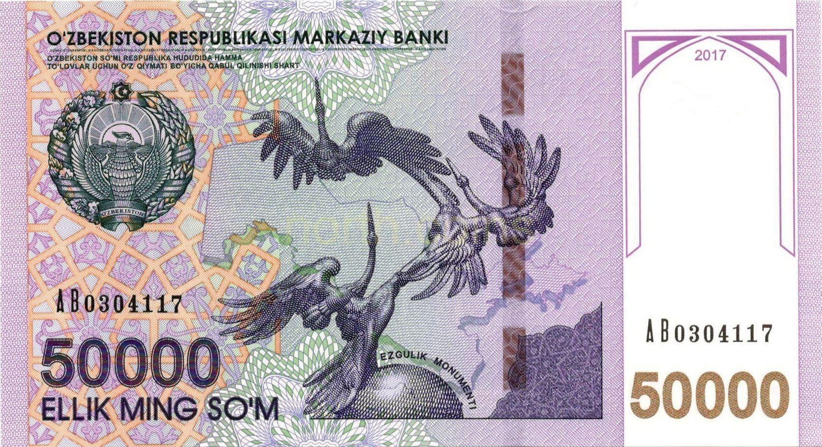 50000 soms of Uzbekistan (2017)